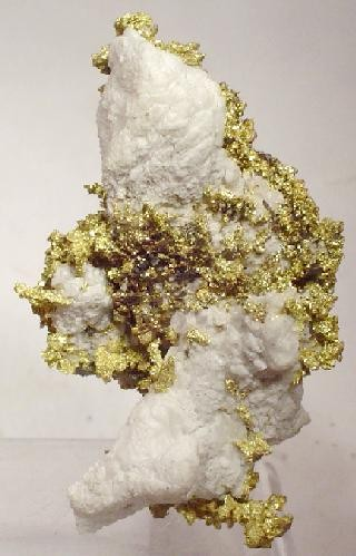 Gold, Quartz Locality: Nova Scotia, Canada (Locality at ) A VERY RICH, AESTHETIC and uncommon specimen of lustrous, hackly gold in milky quartz from Nova Scotia, Canada! VERY SELDOM do you see a Nova Scotia gold with this richness. 17 grams. 3.5 x 2.1 x 1.8 cm